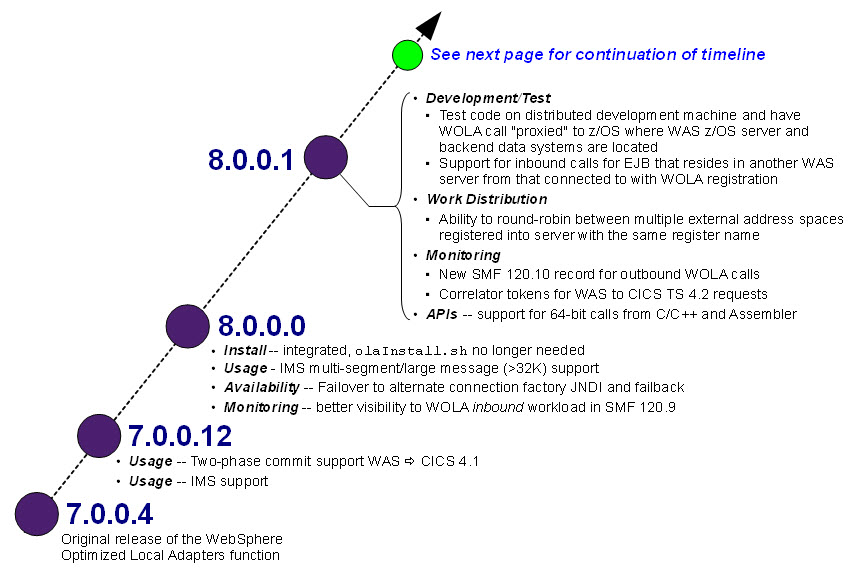 Normal sized version of updates at 7.0.0.4 and 8.0.0.0